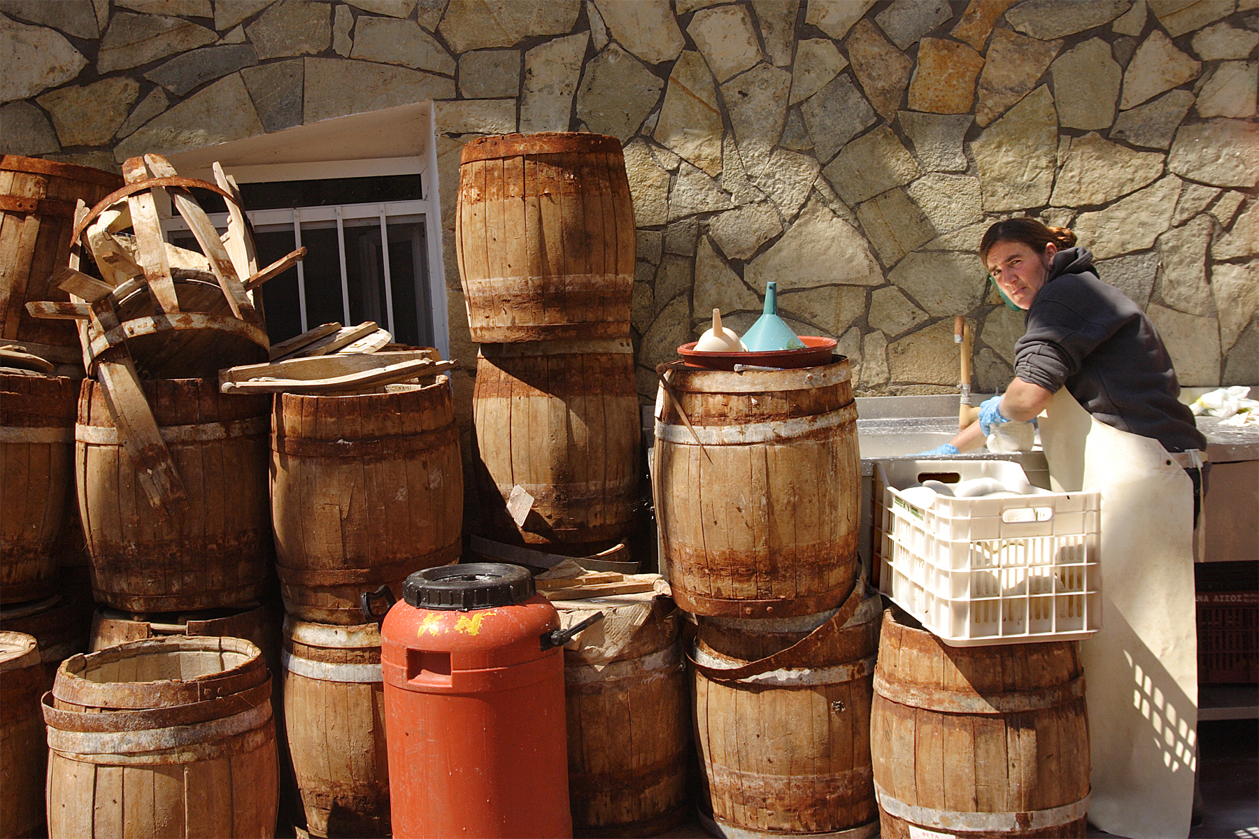 Mizithra, Greek fresh Cheese, made with milk and whey from sheep and/or goats, usually hung in cloth bags to dry. The Original from Crete is produced in varieties throughout Greece, here at Ladonas spring, Achaea. When rubbed with coarse salt and letting it age, it is salty sour. In very hard condition, it is suitable for fine grating.